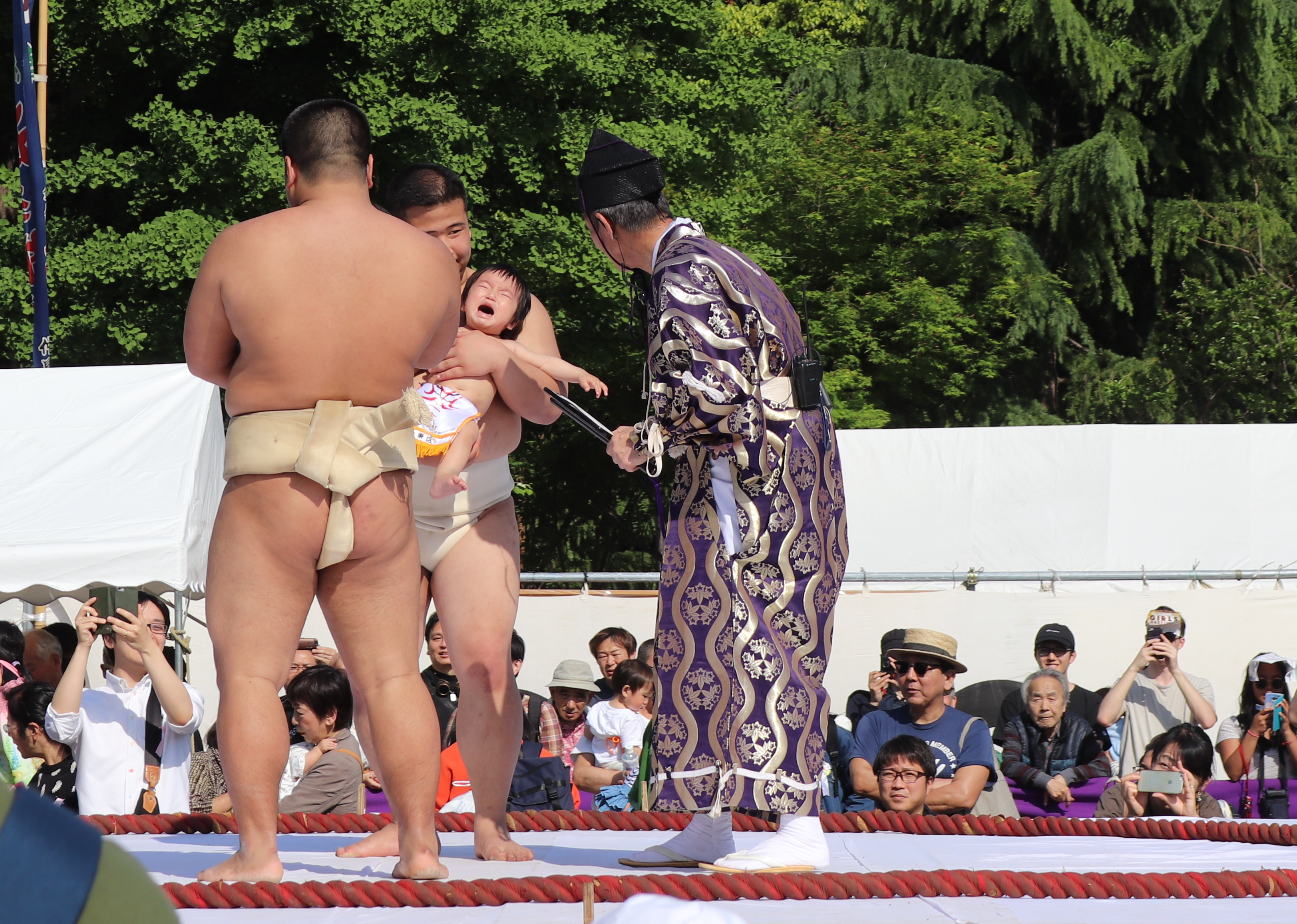 At the 2018 Naki Sumo Crying Baby Festival at Sensoji Temple, Asakusa, Tokyo. A referee stimulates the babies to cry.